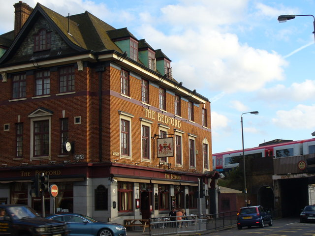 The Bedford Central Balham pub in a modern building next to the railway bridge over Bedford Hill. It will get some trade from the nearby stations and town centre shops.